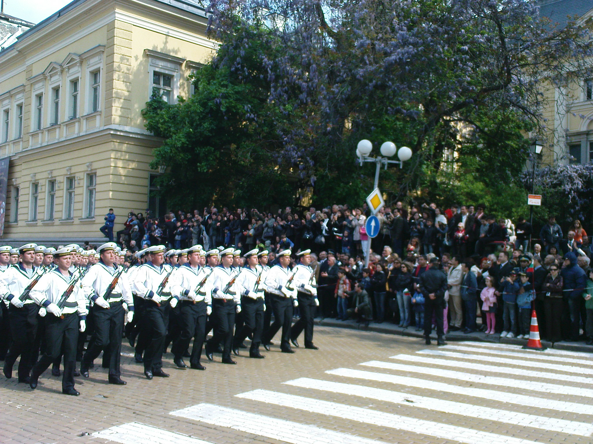 Bulgarian navy personnel marching on Army day parade in Sofia